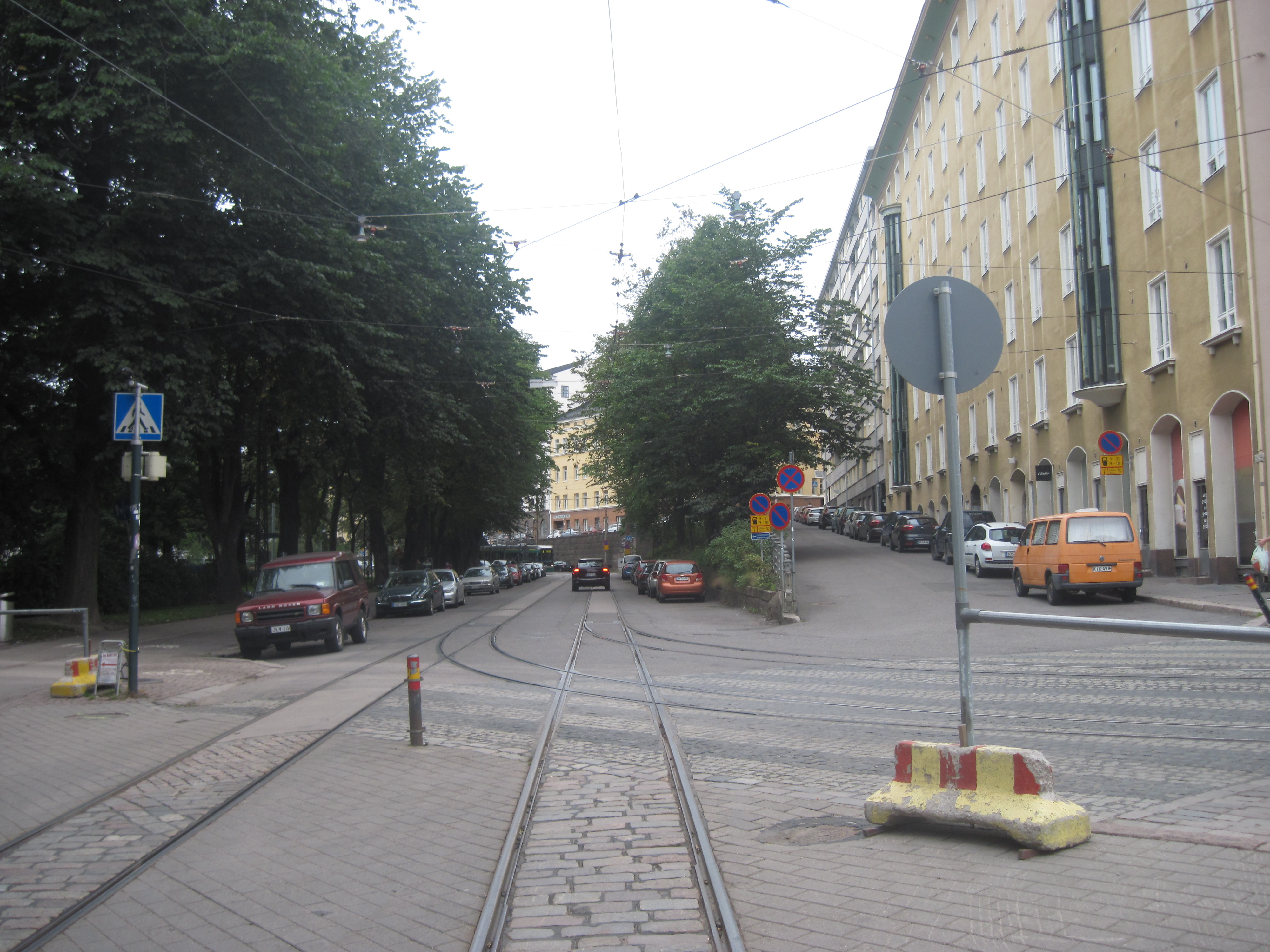 Laivurinkatu in Helsinki, northward from the corner of Tehtaankatu